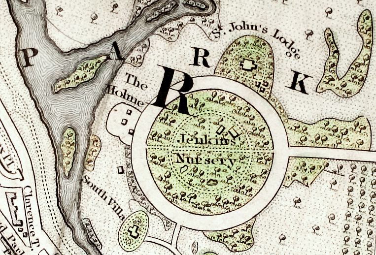 1833 map of the Inner Circle of Regents Park shows St. John's Lodge on the outside perimeter at about one o'clock and The Holme at about ten o'clock. The inside of the Inner Circle is labeled "Jenkins Nursery". Source: section of "Improved map of London for 1833, from Actual Survey. Engraved by W. Schmollinger, 27 Goswell Terrace", photographed for Wikipedia. All rights of the photographer in this image are hereby released.